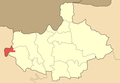 Locator map of Livadion community (Κοινότητα ΛΙβαδίων) at Kilkis perfecture, Greece.